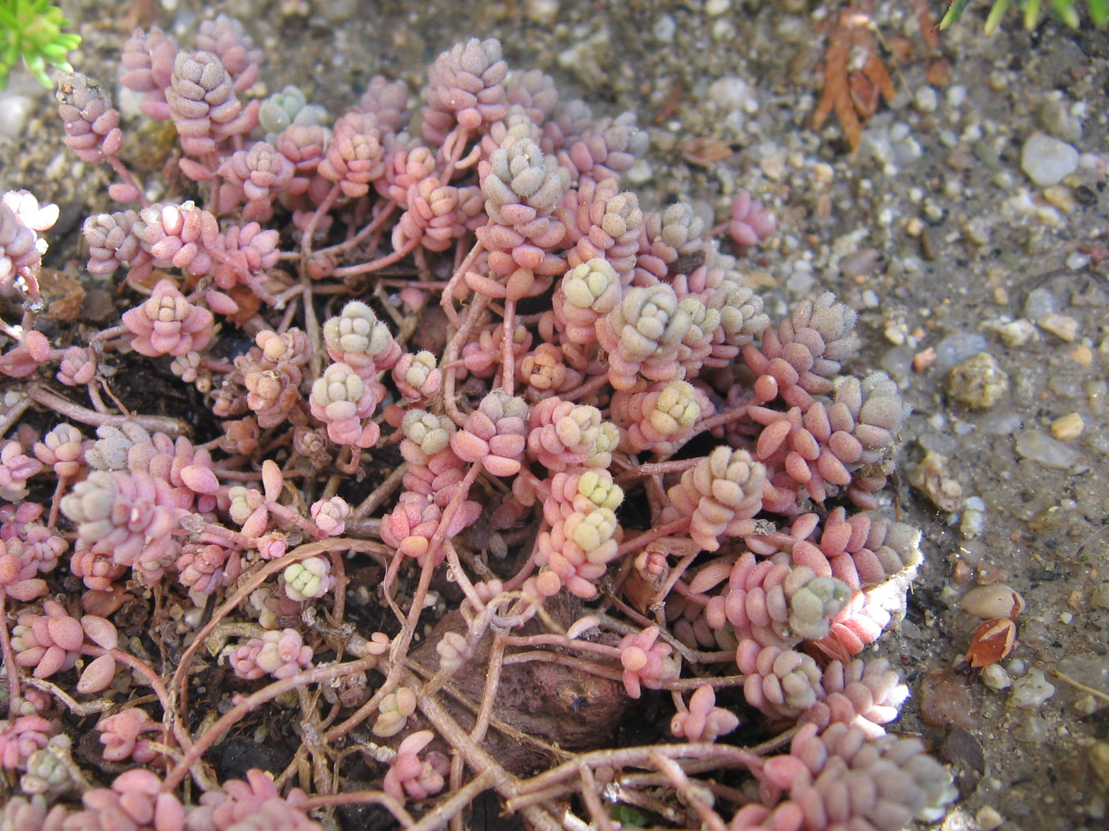 Sedum dasyphyllum